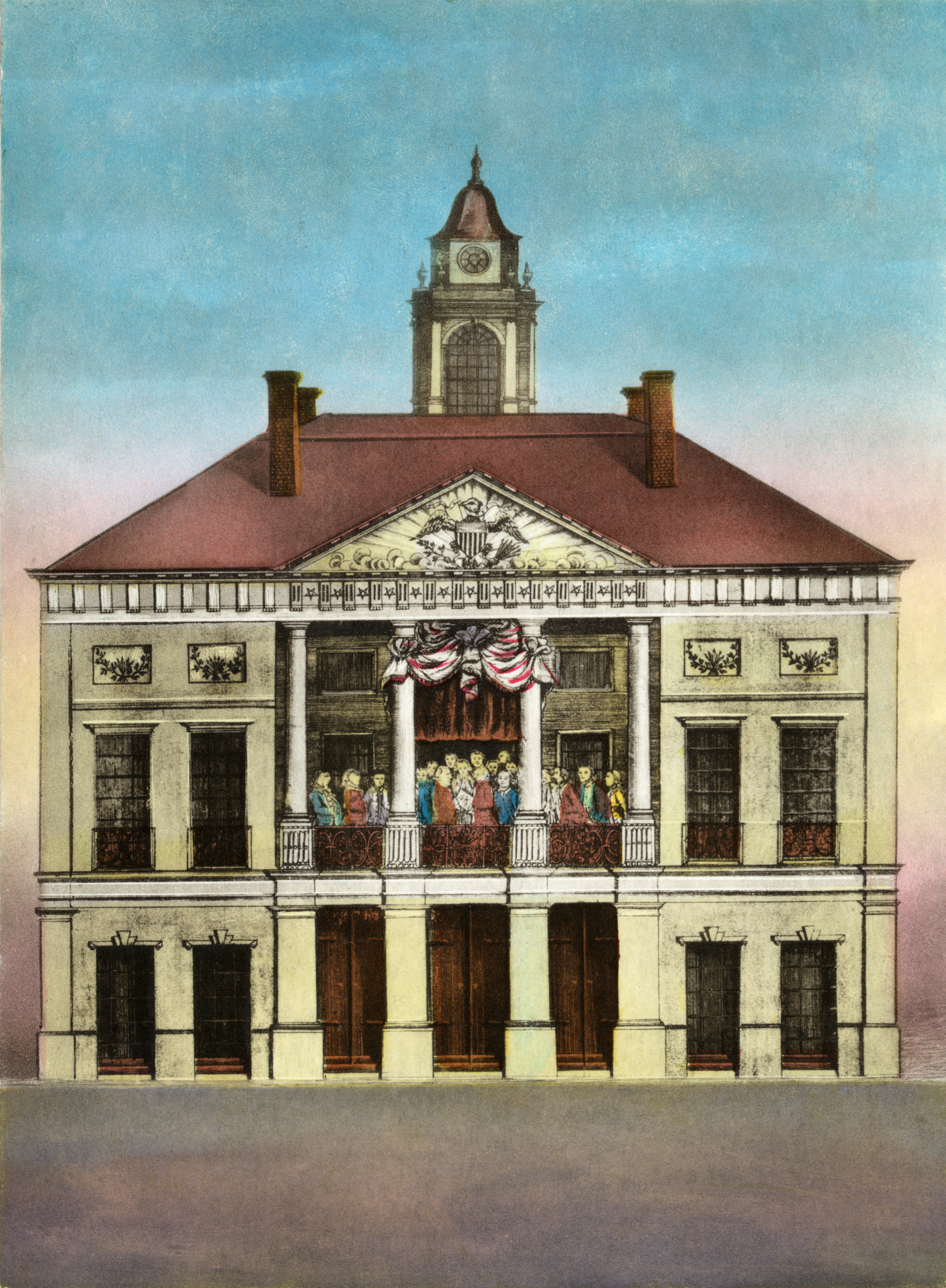 Federal Hall, N.Y. 1789 - First Capitol of the United States. 1 print mounted on paper : engraving, hand-colored ; 20 x 14.7 cm.